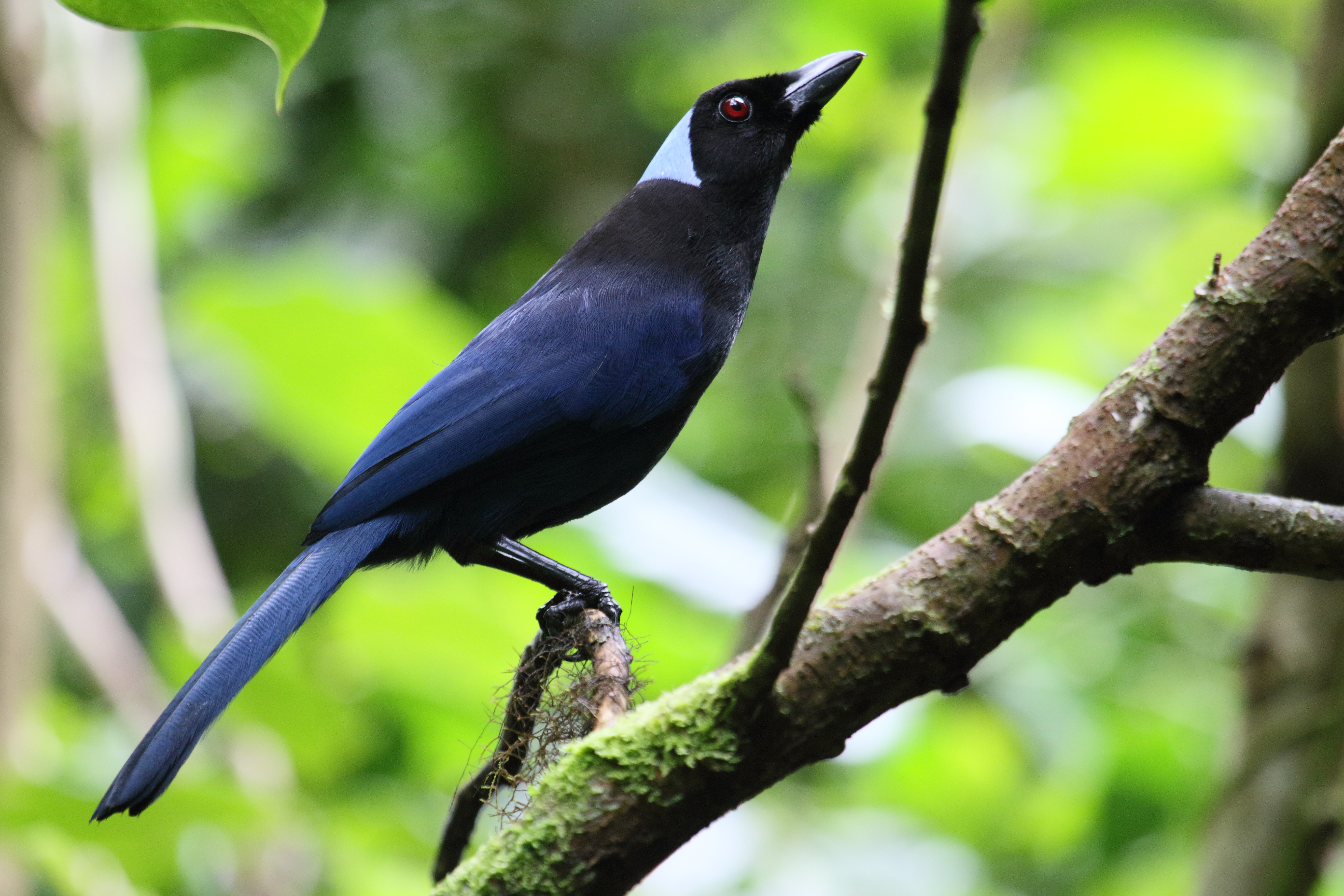 Azure-hooded jay, Monteverde Cloud Forest Reserve, Costa Rica